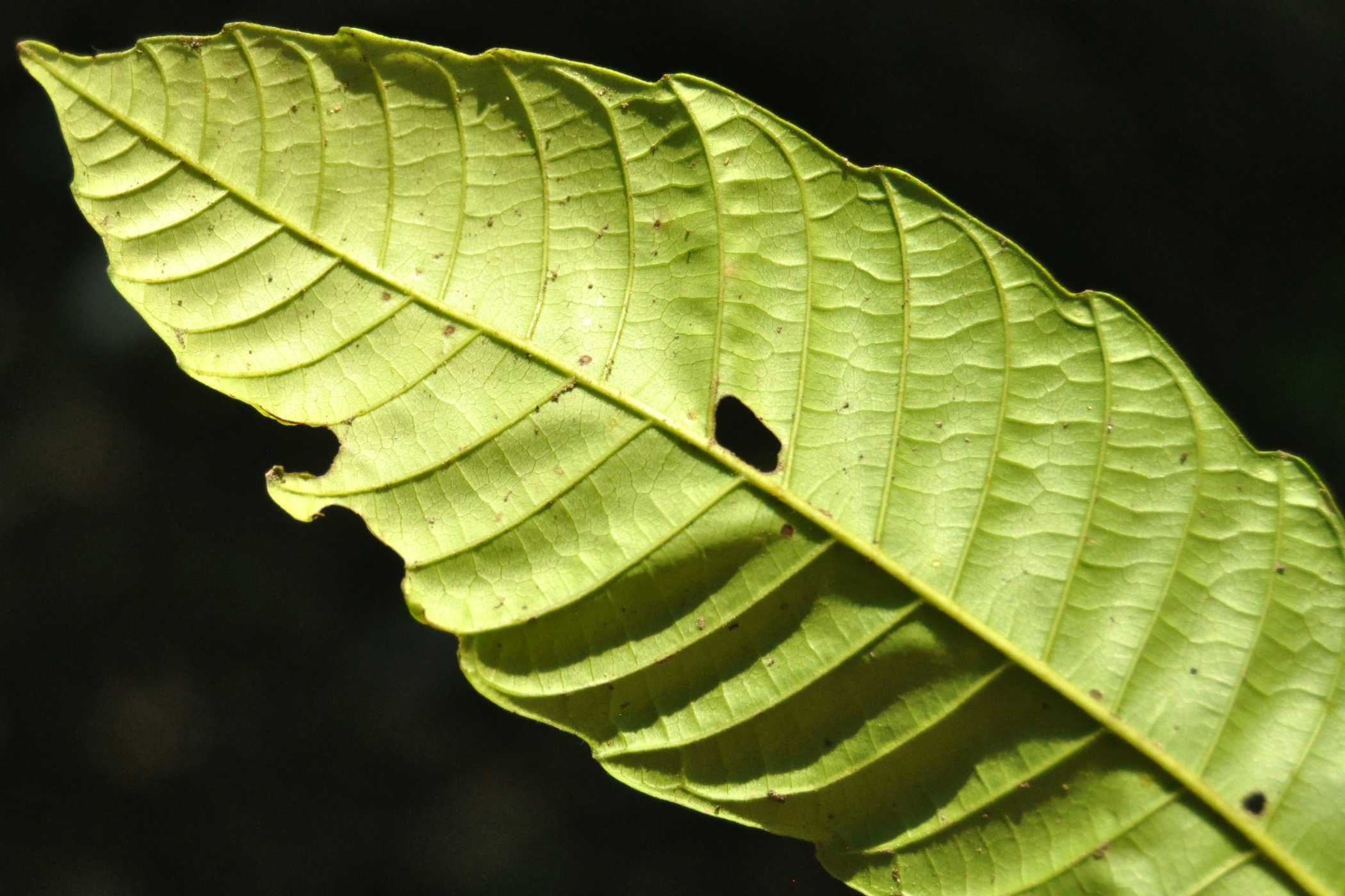 Leaflet of Pometia pinnata; architecture type: mixed craspedodromus. Bogor, West Java, Indonesia.